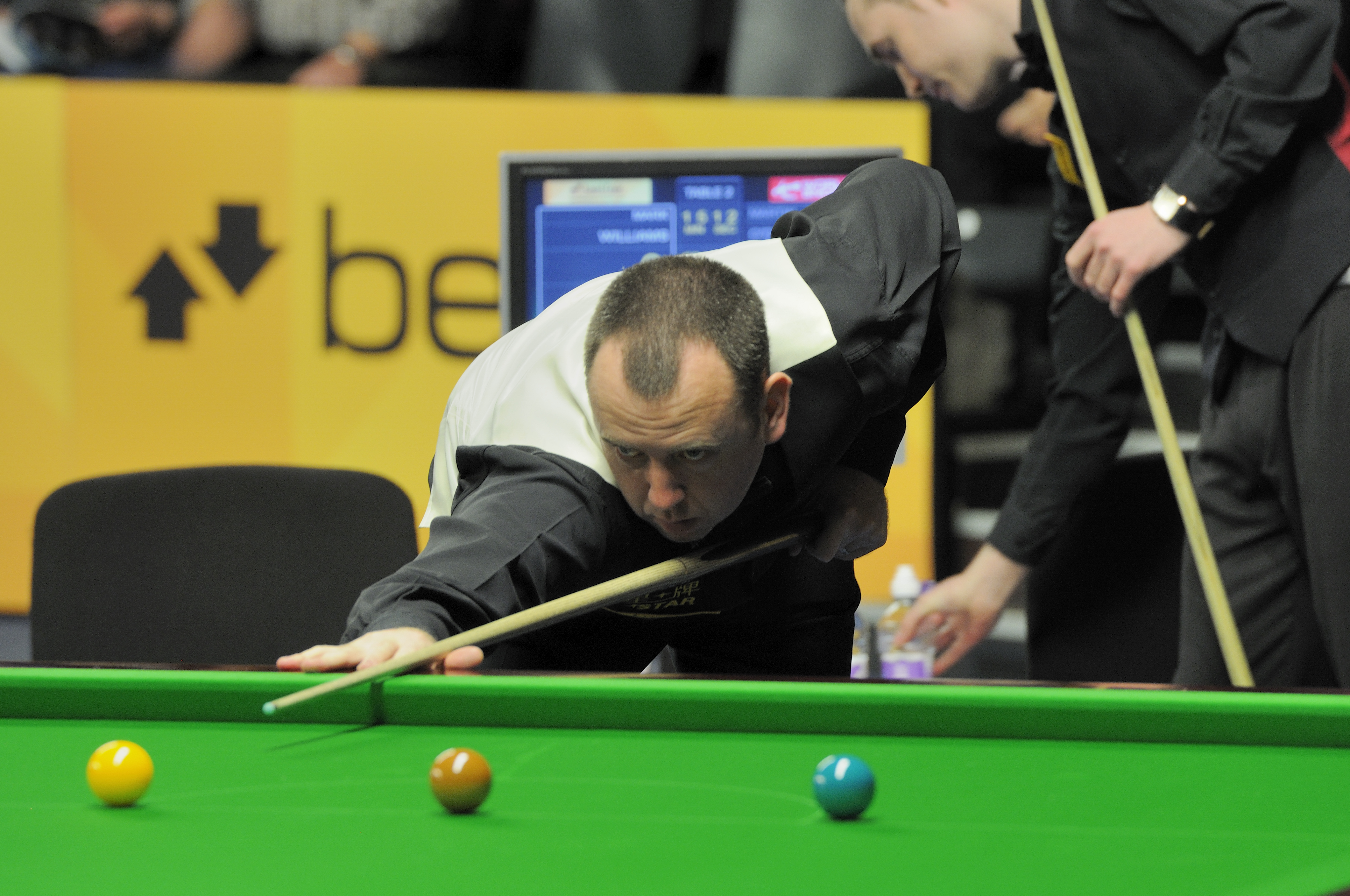 Picture taken in Berlin during the Snooker German Masters in 2013. Mark Williams.